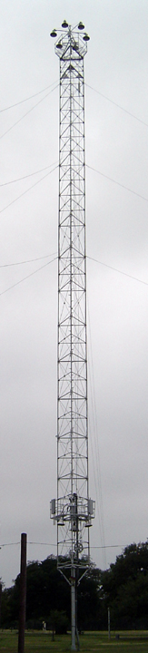 A moonlight tower located in Zilker Park, Austin, Texas, United States. This tower is a replica built in 1967 to replace one of the original 1895 towers that had fallen. This tower forms the "trunk" of the Zilker Tree, a 155 ft tall tree of lights created each year and lit during the month of December.